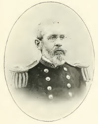 James A. Greer